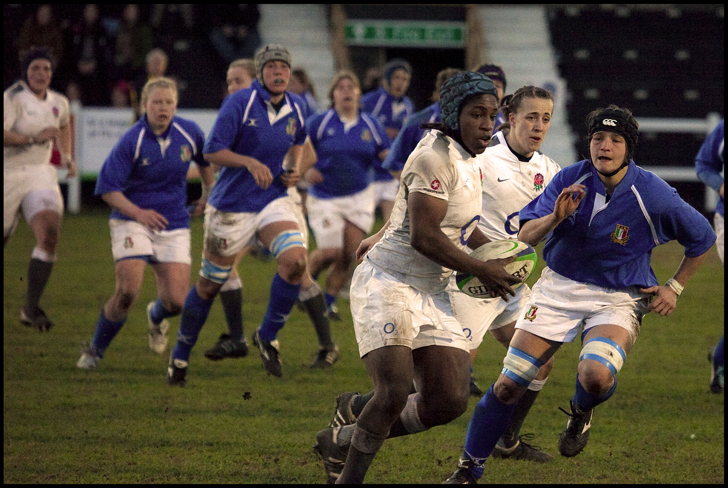 Maggie Alphonsi with the ball during the England v Italy match in the RBS Women's 6 nations last Saturday.. ISO 6400